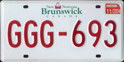 2004 New Brunswick license plate, scanned from personal collection